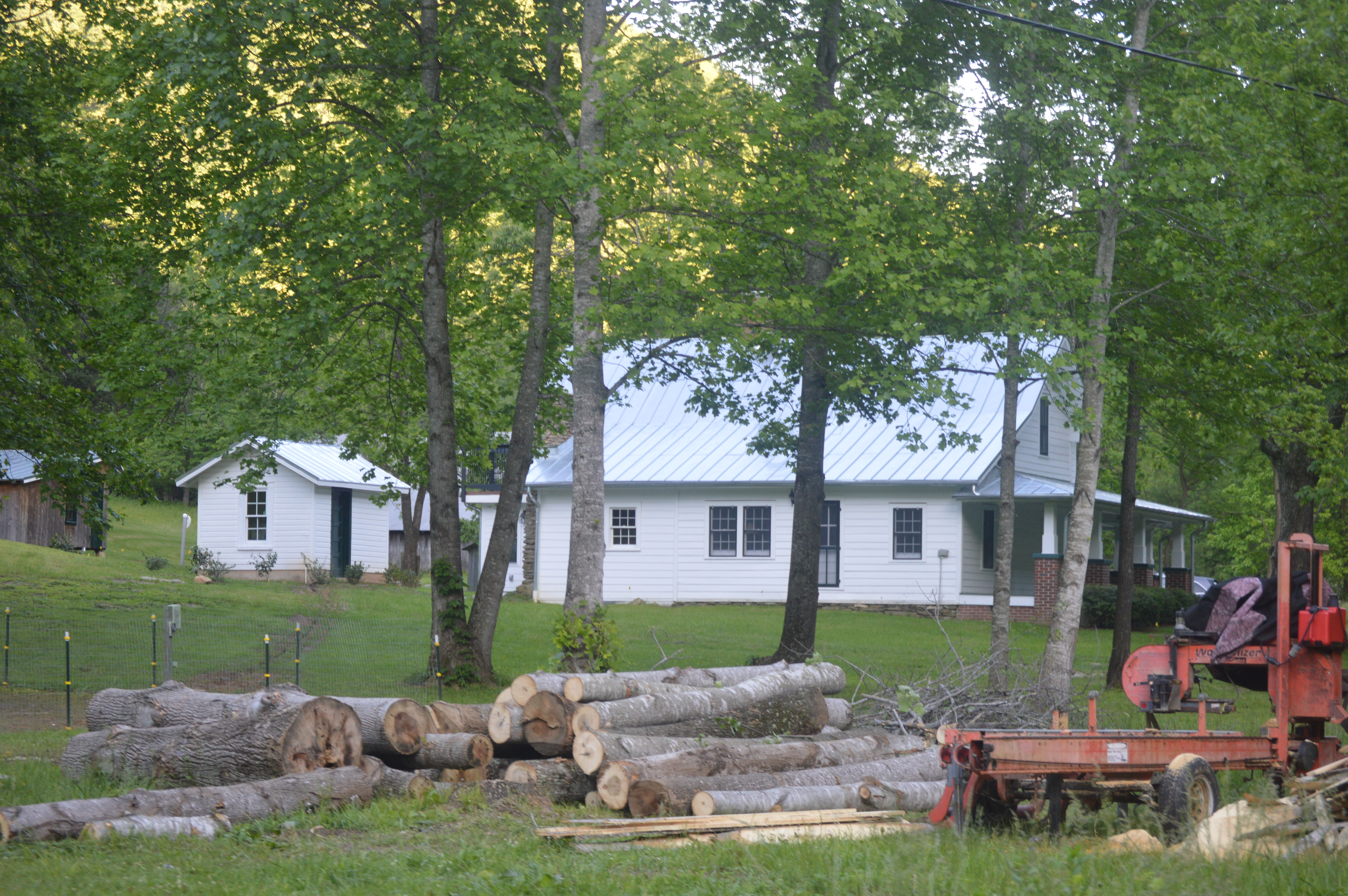 Northern side of the Barnard Farmhouse, located along the headwaters of the Dan River in the Kibler Valley of Patrick County, Virginia, United States. Built in 1829, it is listed on the National Register of Historic Places.